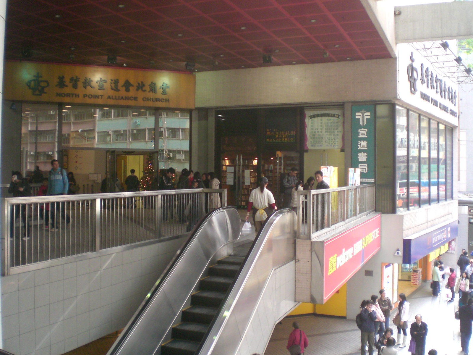 北角 康澤花園 宣道會北角堂 書店